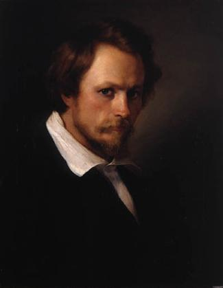 Portrait of J. A. Jerichau painted by his wife Elisabeth Jerichau Baumann